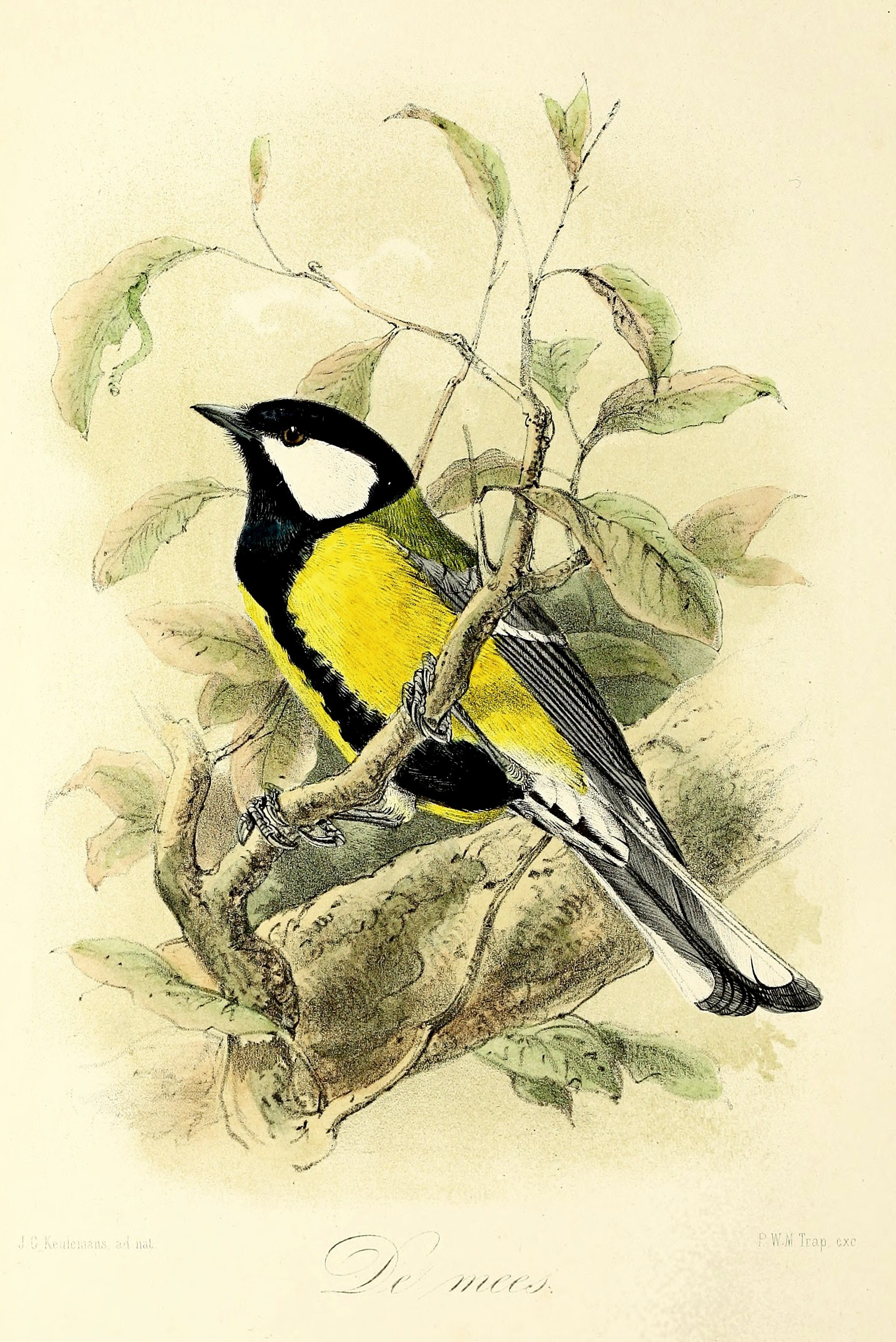 « Parus major » = Parus major (Great tit)